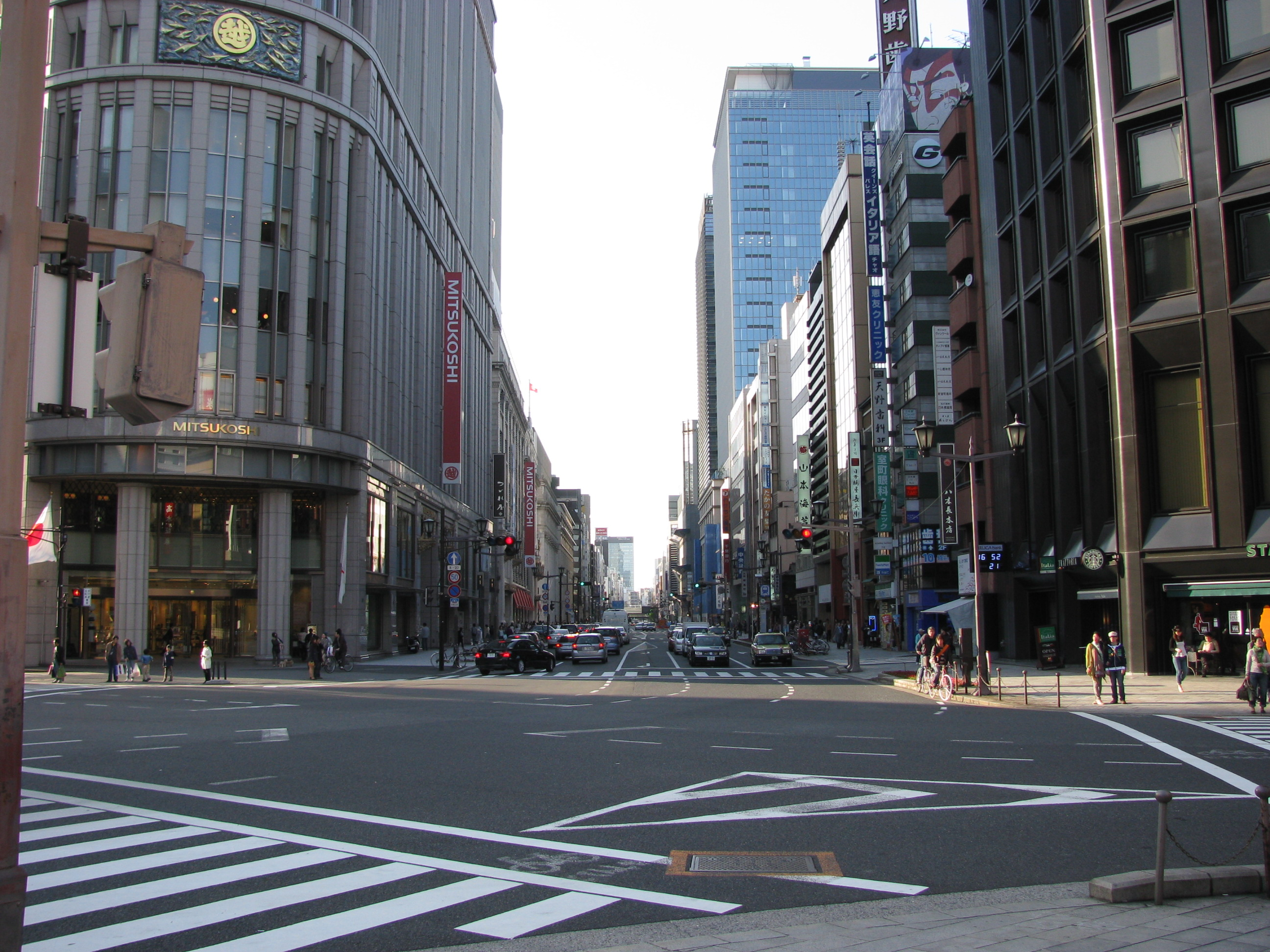 The Japan National Route 4. This place is Nihonbashi in Chuo, Tokyo, Japan.